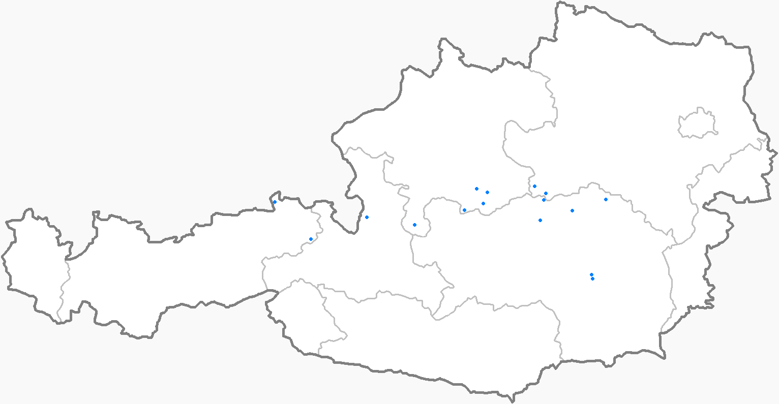 Approximate location of karst springs in Austria. The file shows karst springs are listed in the "List of karst springs in Austria" in the german Wikipedia. For questions and suggestions contact the author. State border Country border Karst spring